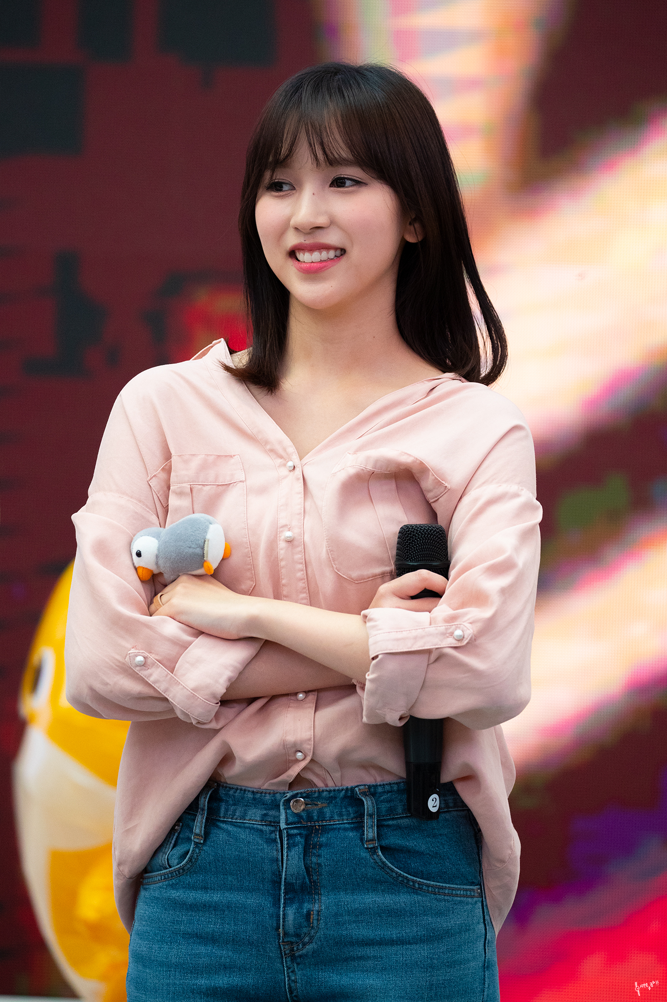 Mina Myoui in Birthday celebration on March 24, 2019